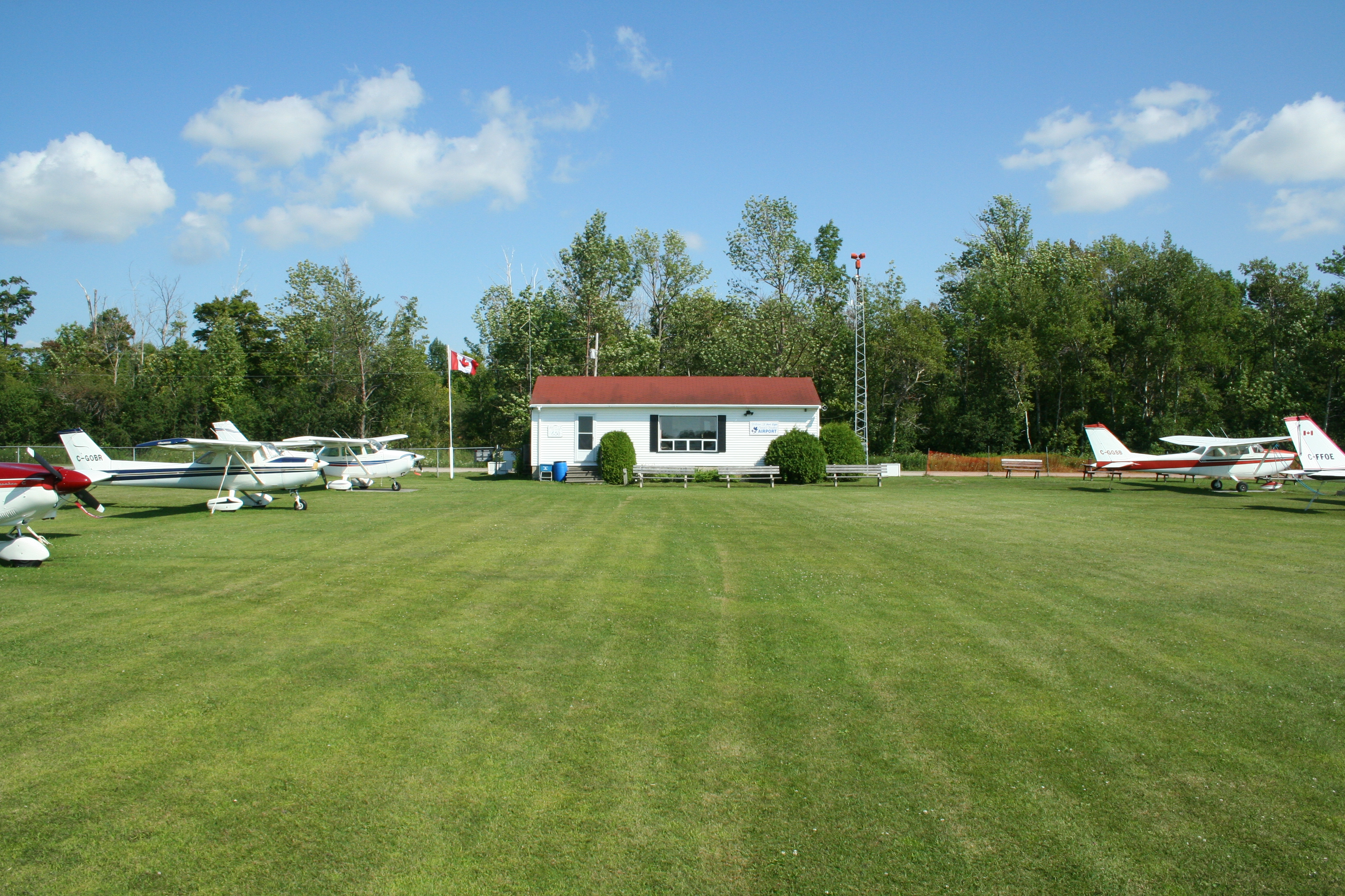 The terminal building at Port Elgin Airport (CNL4), Ontario, Canada.